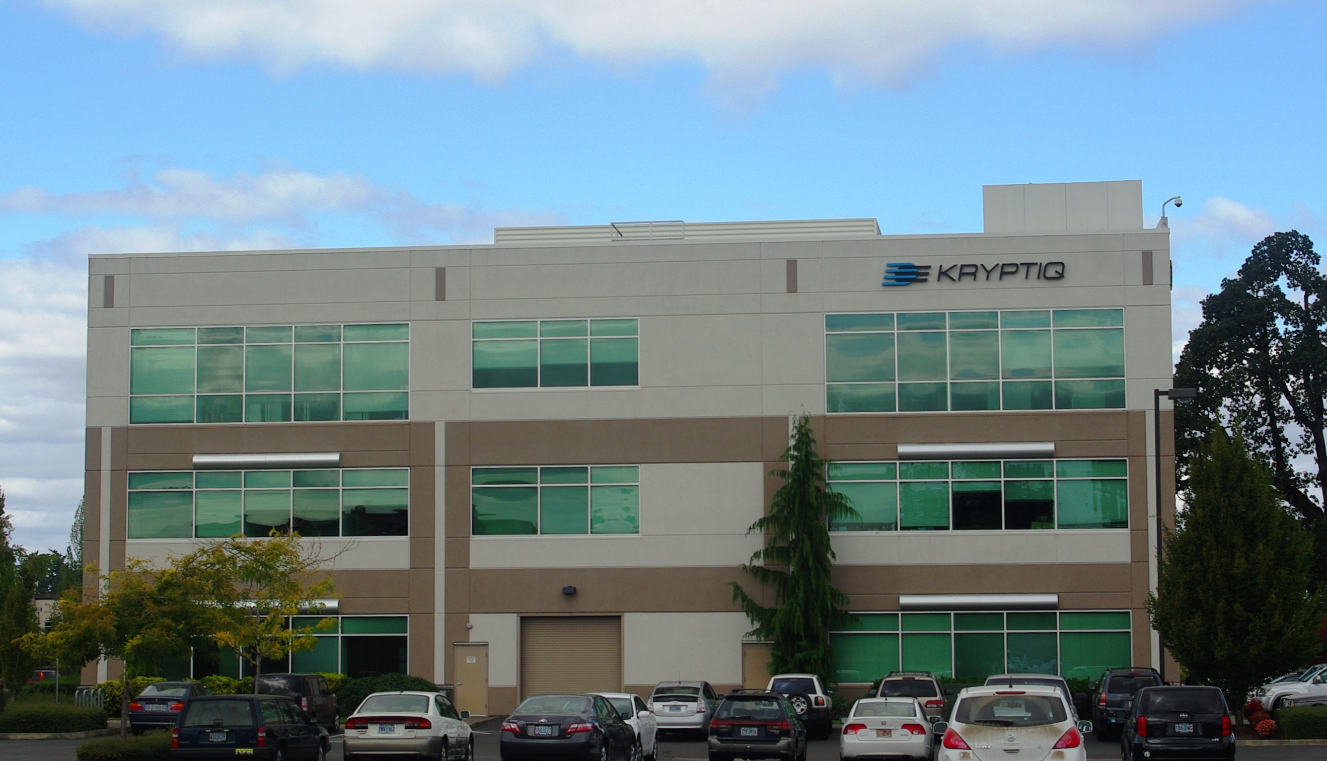 Kryptiq's former headquarters in Hillsboro, Oregon, USA. In 2010 moved to AmberGlen